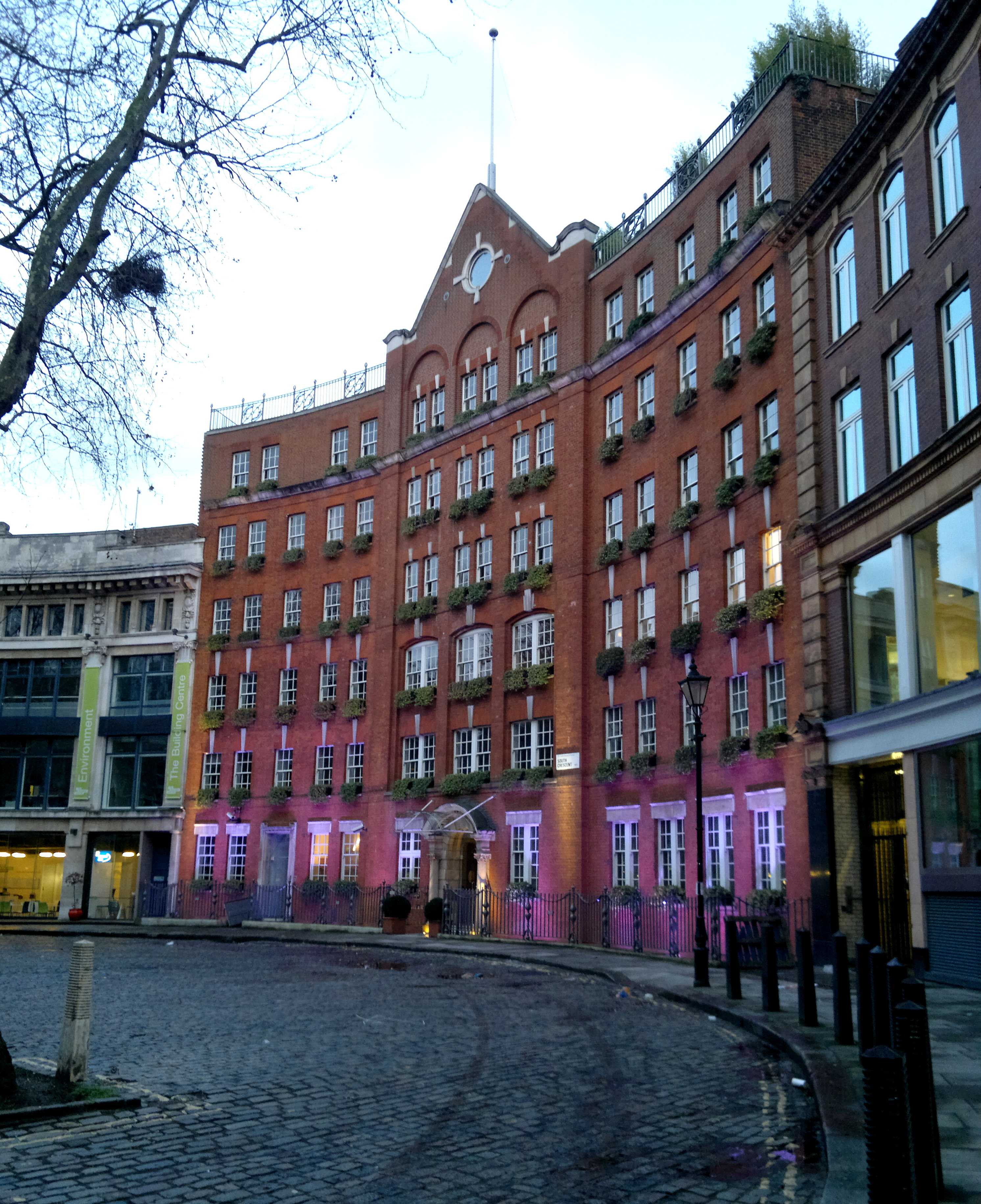 South Crescent, London WC1E.